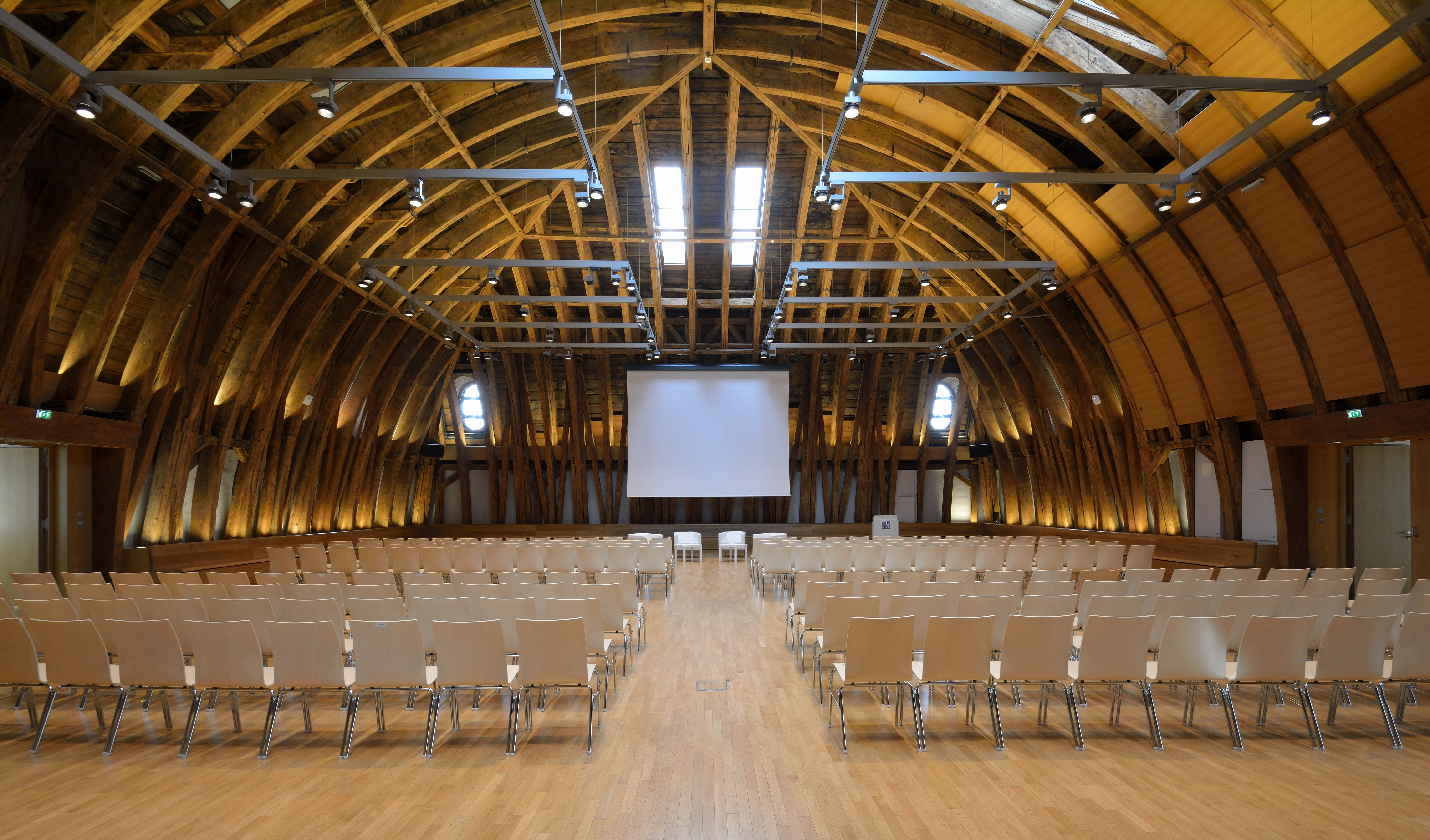 Kuppelsaal (cupola hall) of the Vienna University of Technology, Karlsplatz, 4th district of Vienna